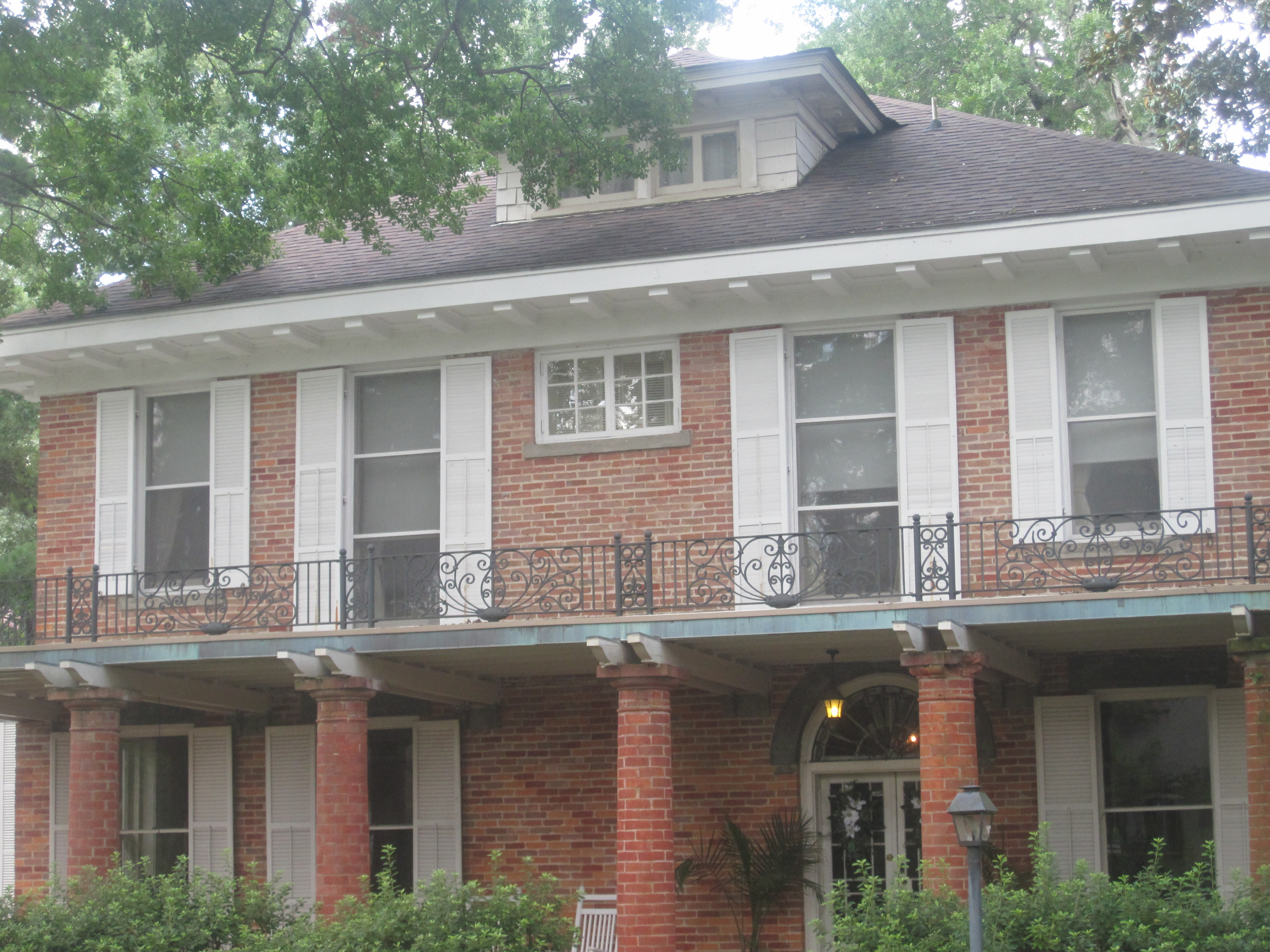 Steel Magnolias Bed and Breakfast in Natc hitoches, LA IMG_2038.JPG